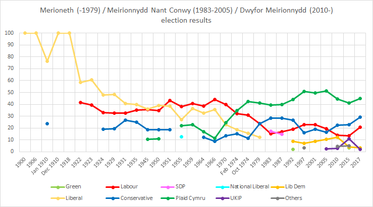 Merioneth election results